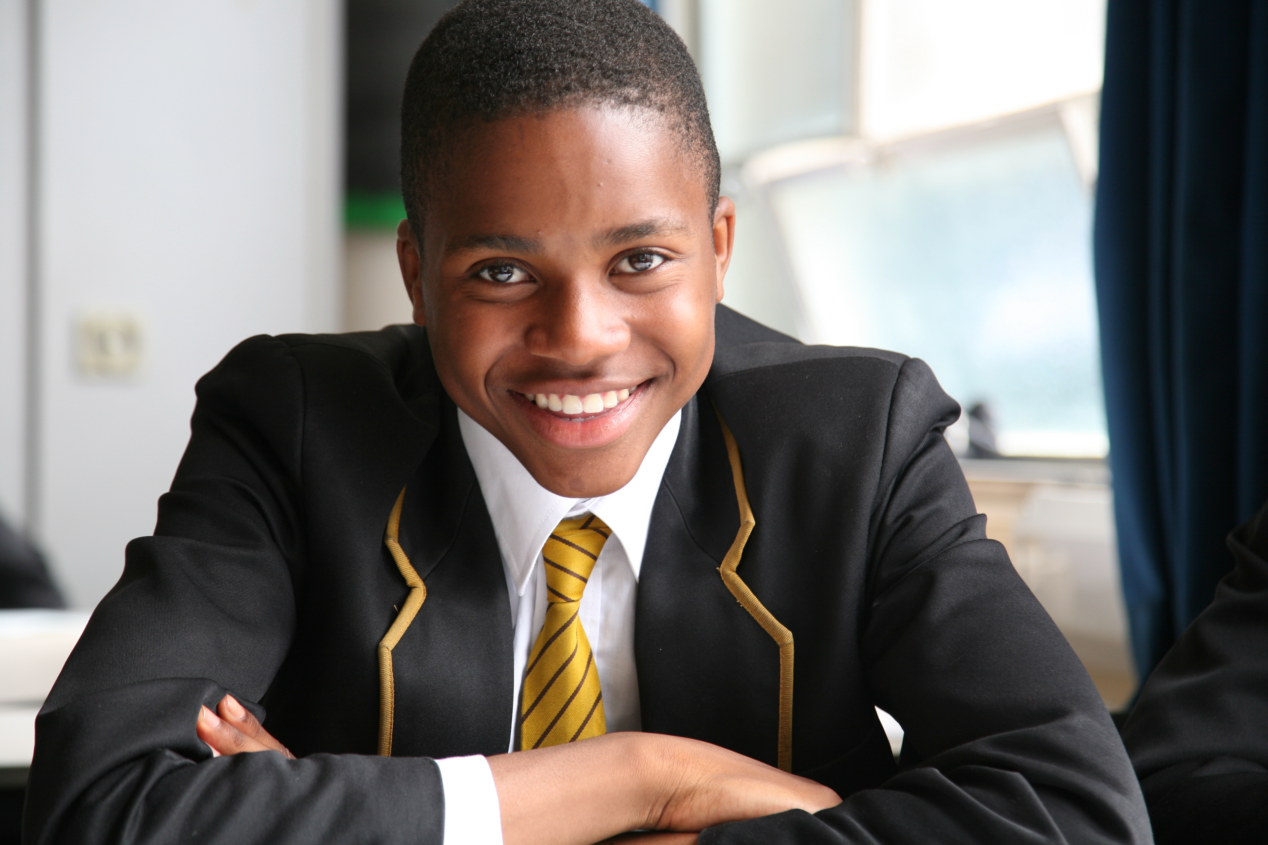 The Uniform of Years 9 -11